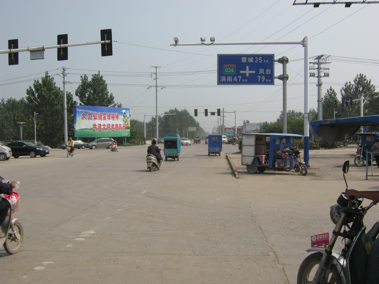 Road directing to G36 in Lixin County.